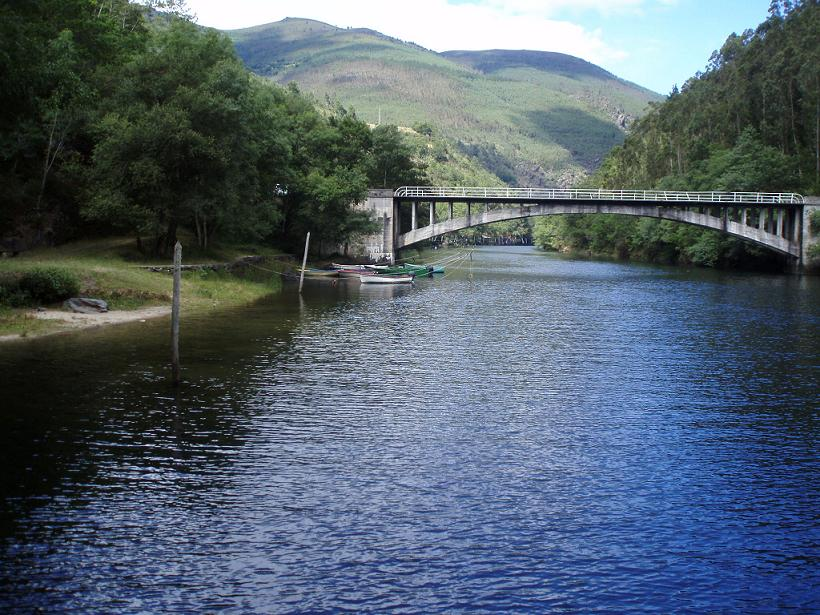 Panorama of Castrillón.